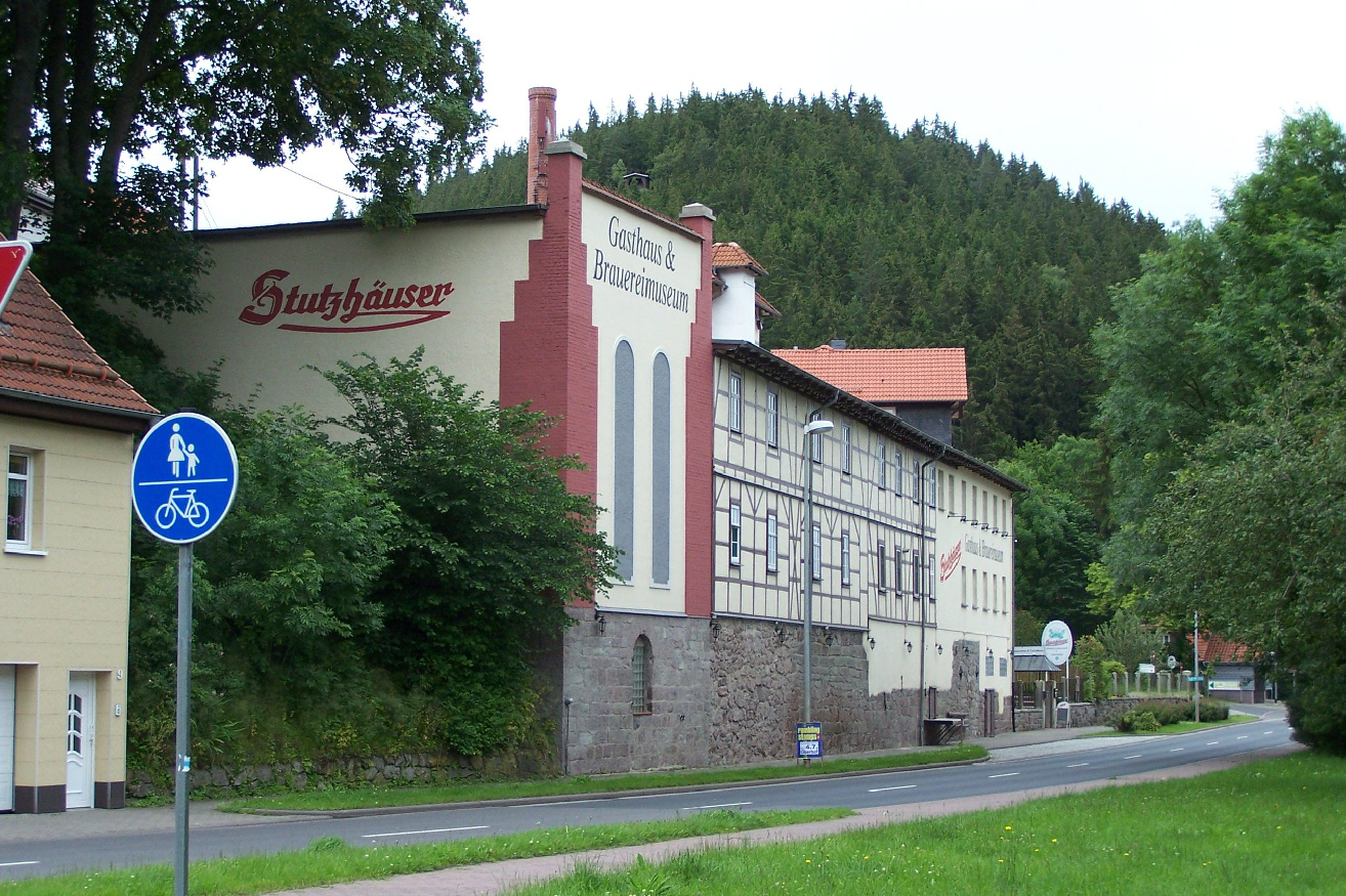 The museum Stutzhäuser Brauerei in Luisenthal.